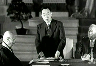 Kim Kyu-sik